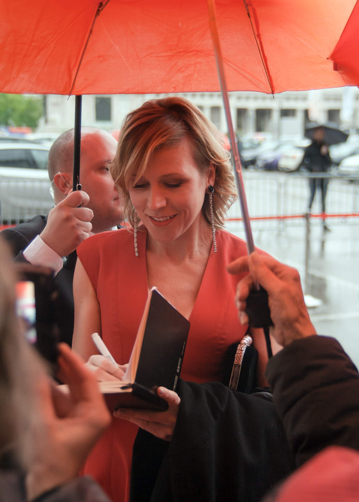 Franziska Weisz on the red carpet of the Romy TV awards 2017 at Hofburg Palace in Vienna, Austria.